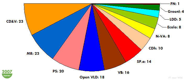 Inaugural seat division of the Belgian Chamber of Representatives in 2007.